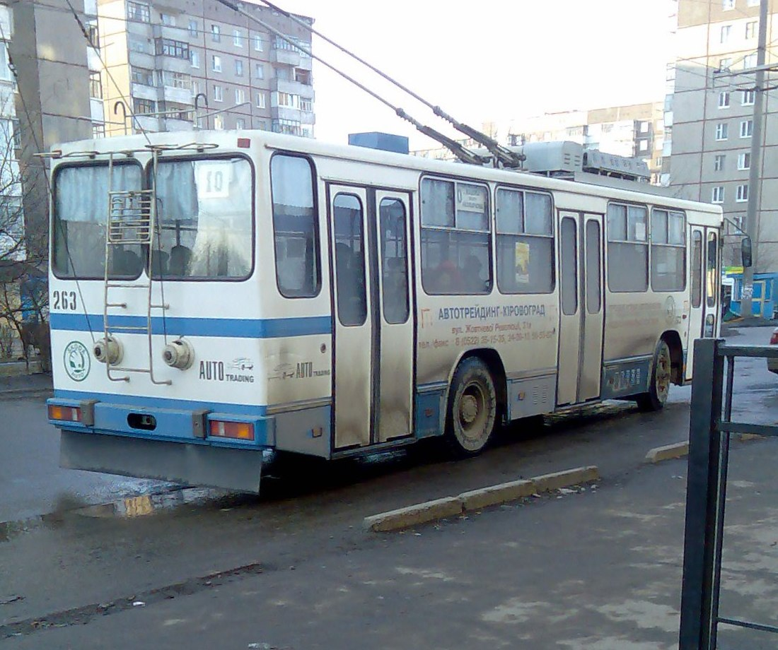 Trolleybus YuMZ-T2 (#263, line #10) in Kirovograd